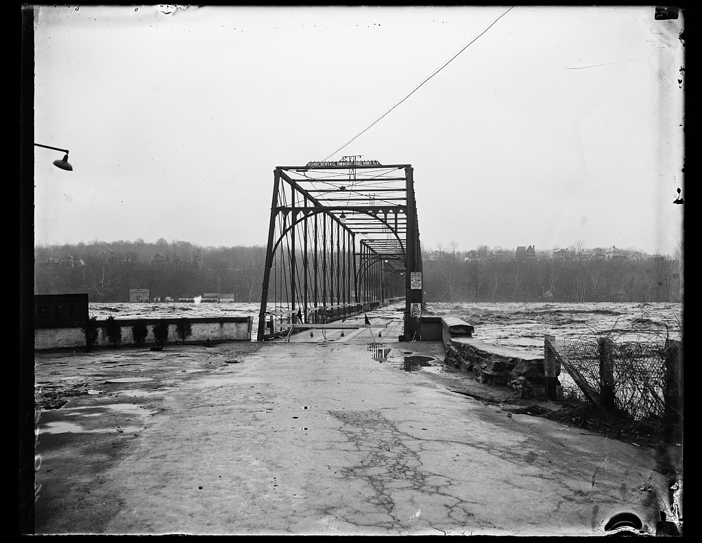 The Potomac River surges over the deck of Chain Bridge during the Great Flood of 1936. This photo was taken from Glebe Road in Virginia; houses on the Potomac Palisades of Washington, DC can be seen in the background.